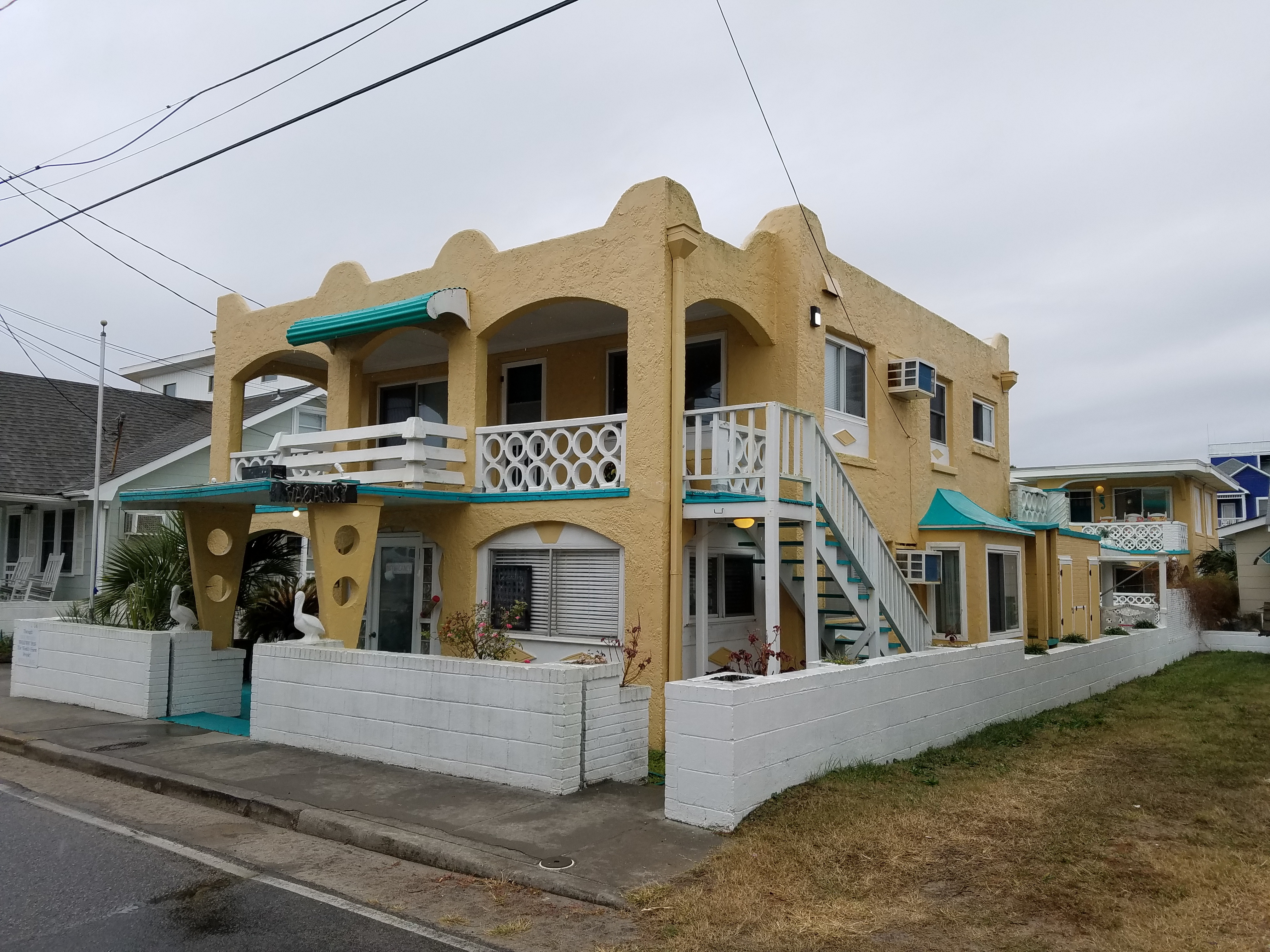 The historic Joy Lee Apartments in Carolina Beach, North Carolina